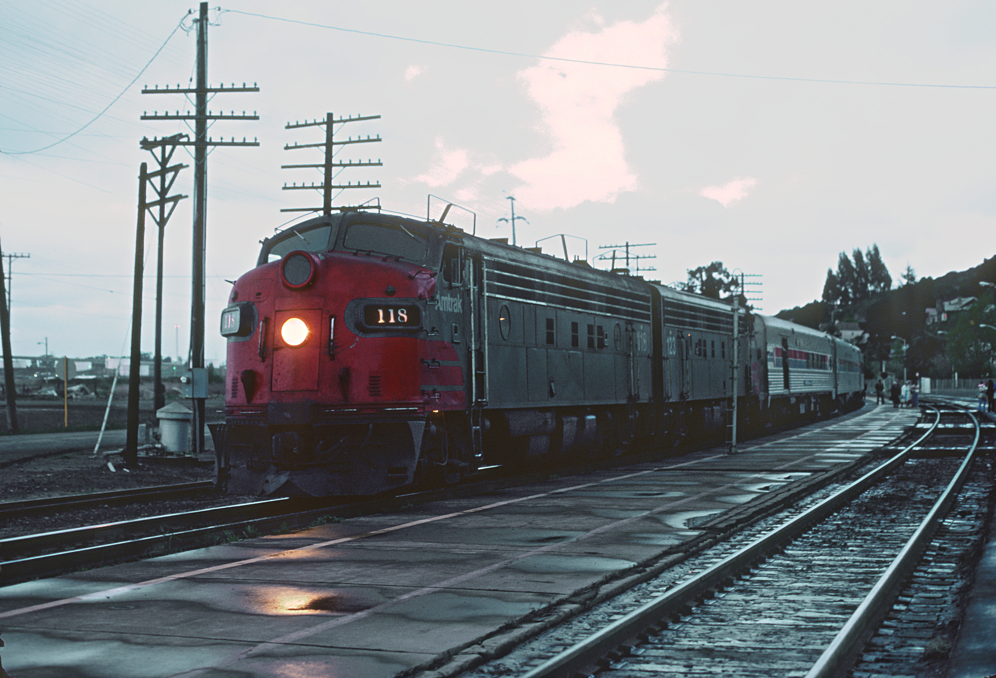 Amtrak locomotives #118 and #123 (FP7As ex-SP #6455 and #6461) with a San Joaquin at Martinez, CA in April 1976